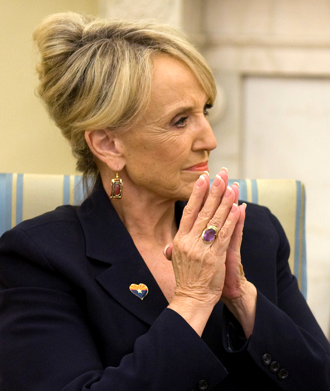 Arizona Governor Jan Brewer while meeting with United States President Barack Obama in the Oval Office of the White House on June 3, 2010.